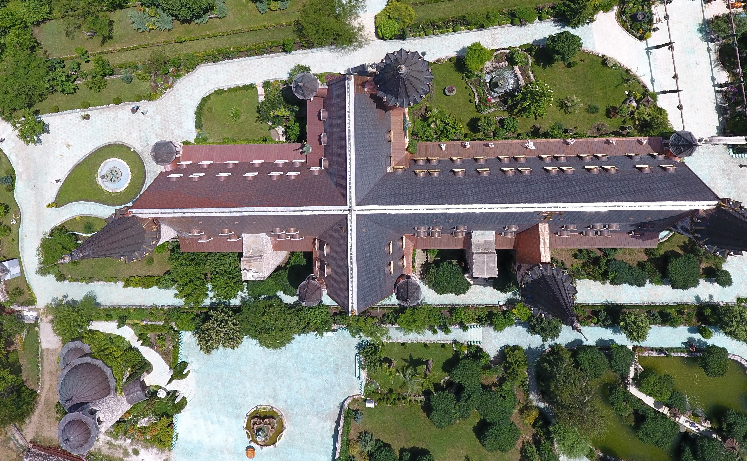 Castle of ravadinovo